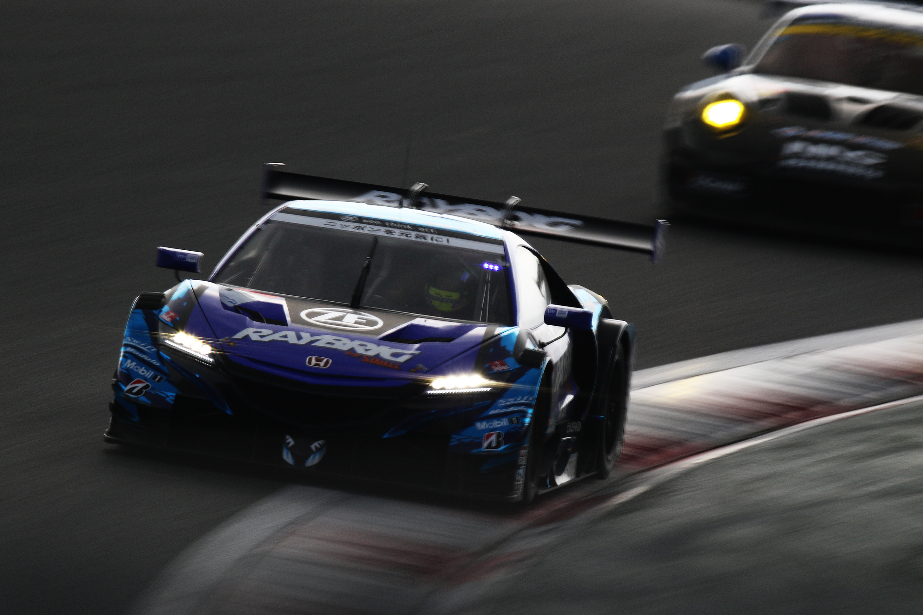 2019 Super GT Series, Fuji Speedway test. Honda NSX GT500 Jenson Button-Naoki Yamamoto.